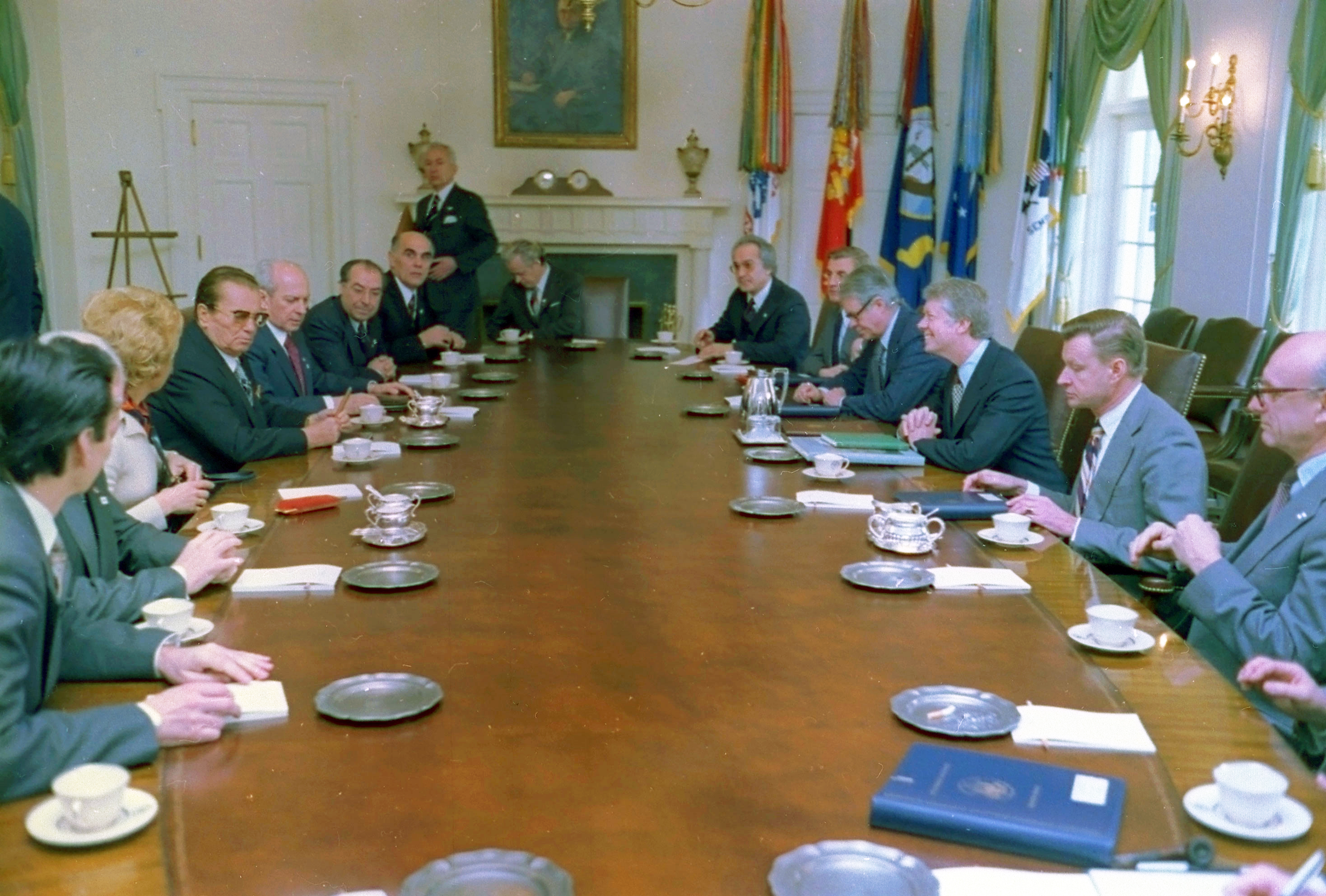 Josip Tito and Jimmy Carter hold a meeting between U.S. and Yugoslavian officials.